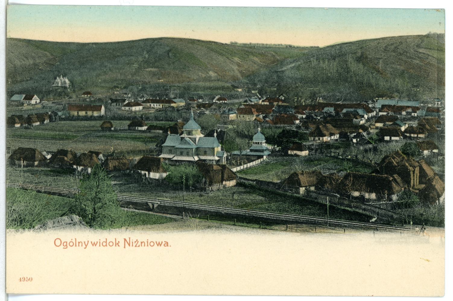 This postcard is from publisher Brück & Sohn in Meißen ( This postcard has a unique number 04950 and is available in a higher resolution at the publisher. This images was uploaded in a cooperation project between Wikipedians and the publisher.